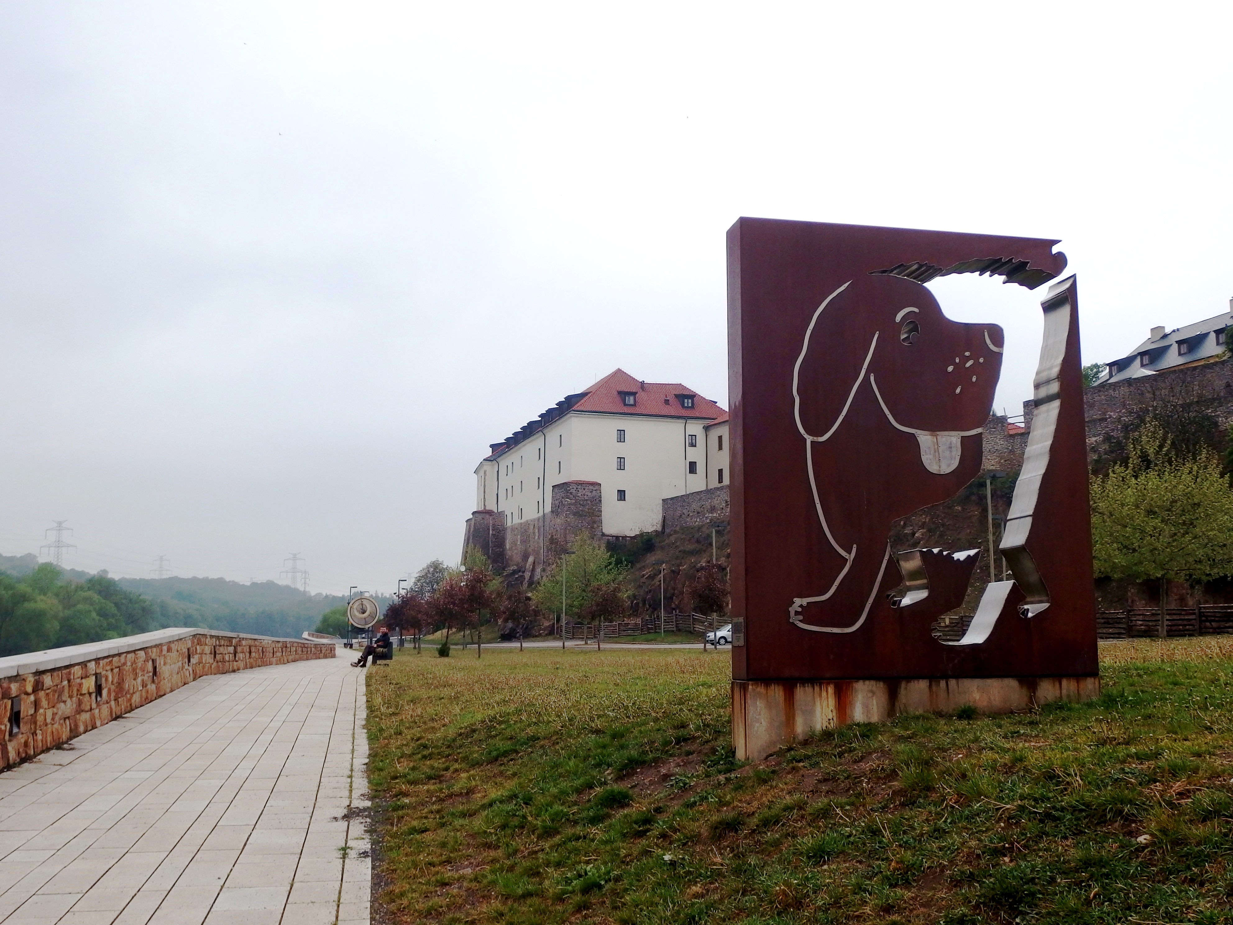 Kadaň, Chomutov District, Czechia.